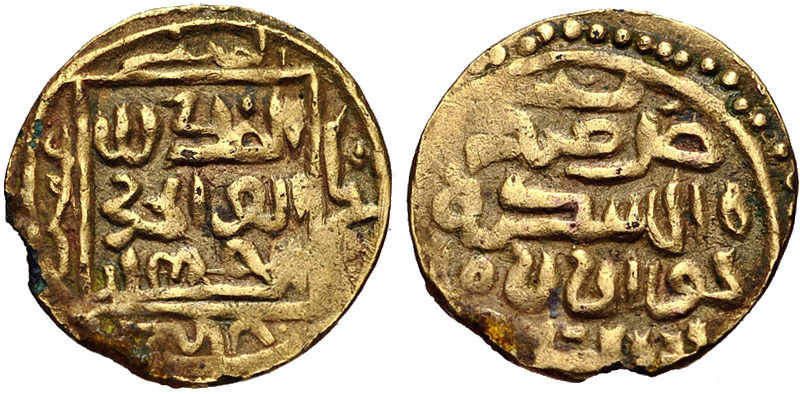 ISLAMIC, Persia (Post-Mongol). Sufids. temp. Husayn. AH 762-774 / AD 1361-1372. Fourrée AV Fractional dinar (12.5mm, 0.45 g, 10h). Khwarizm mint. [Dated AH 767 (AD 1365/6)]. Cf. Album A2063; cf. ICV 2284 (both refs for official issue). VF, some edge chips exposing underlying bronze core. Rare.